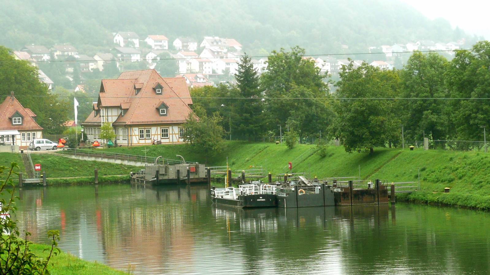 The village of HASLOCH and its fluvial installations on the Main river, Bavaria.